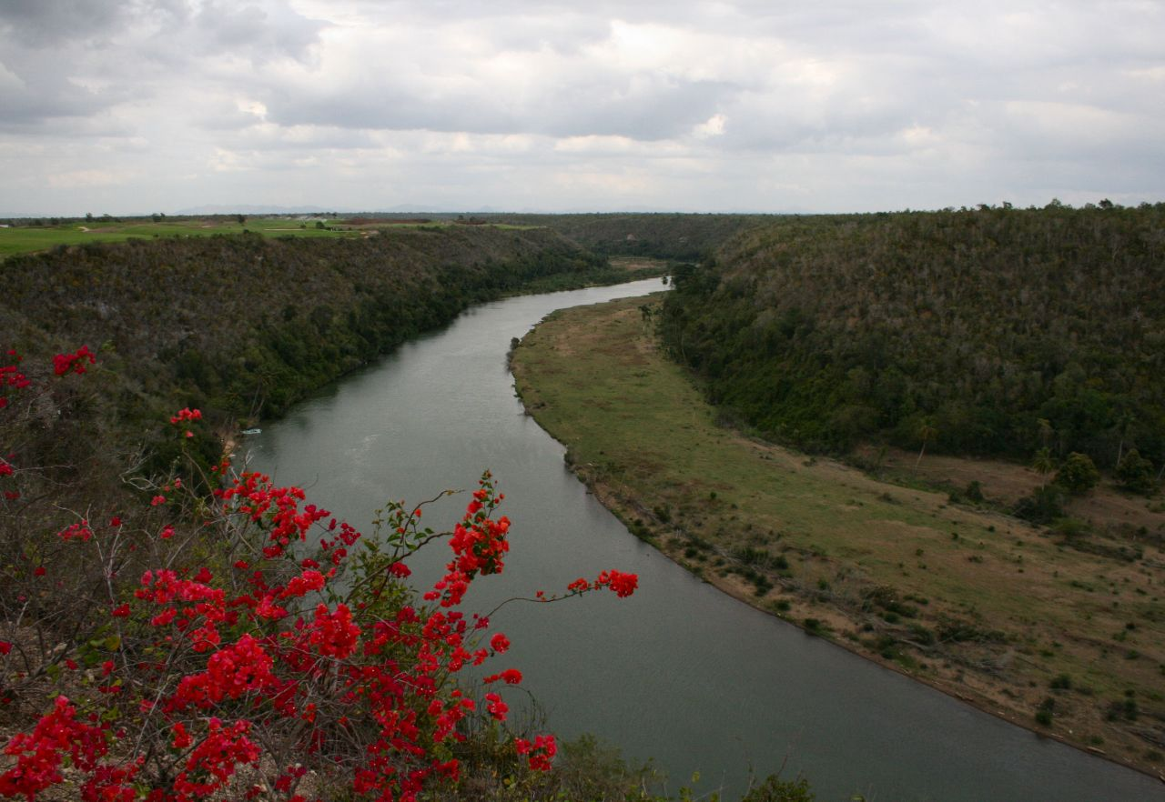 Chavon River - Alto de Chavon at La Romana, Dominican Republic